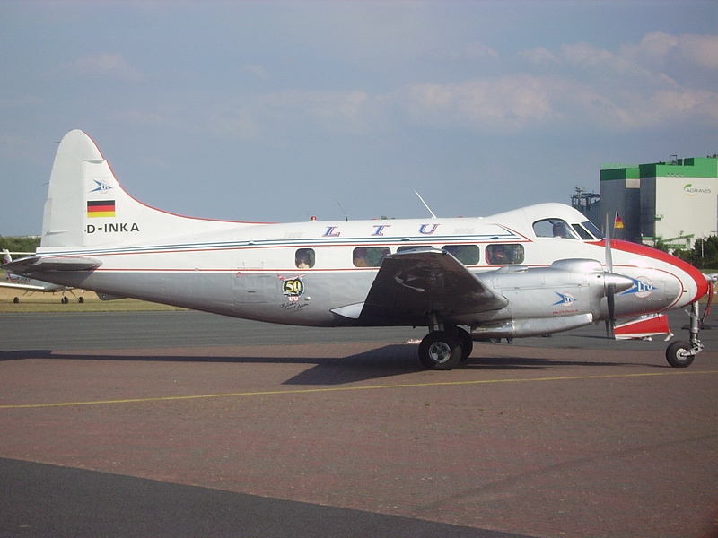 A de Havilland 104 Dove of the German airline LTU classic